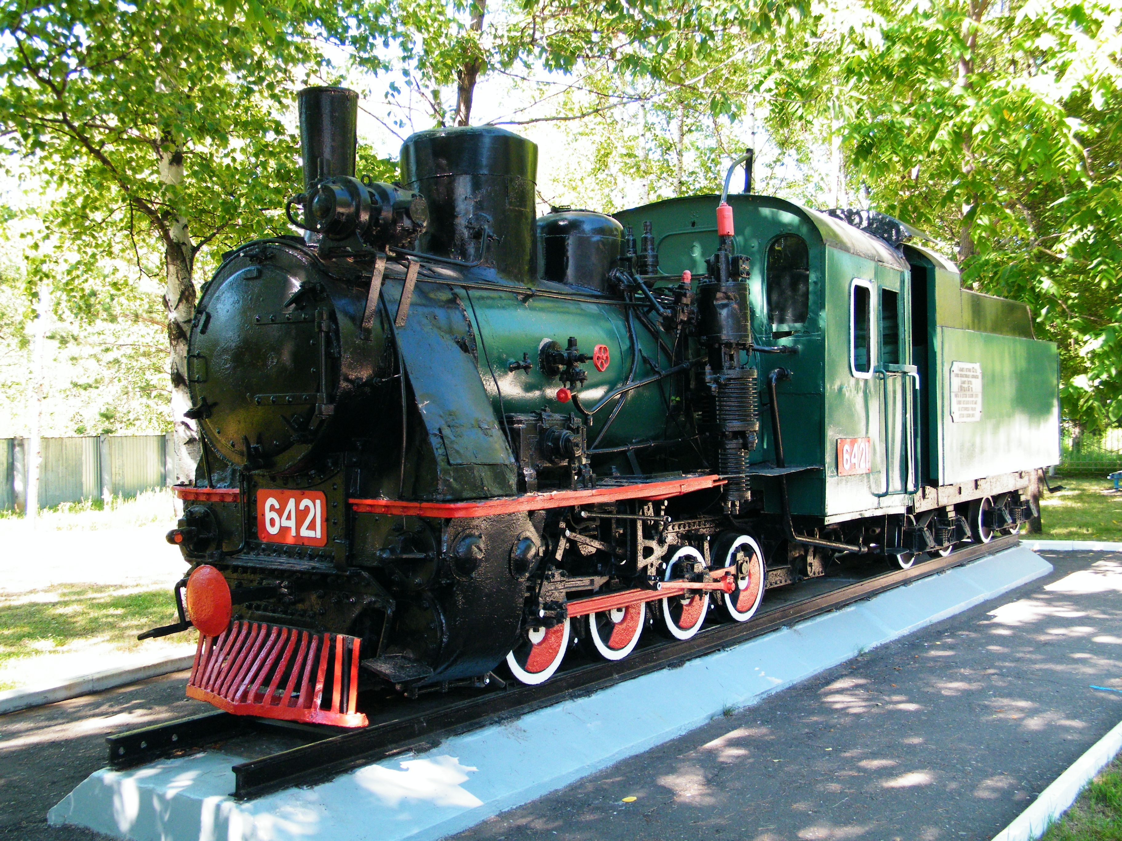 Malaya Dalnevostochnaya, Khabarovsk